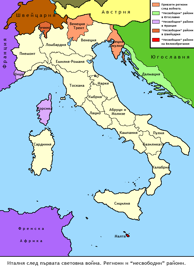 Situation of the Italian nation after World War I. New conquered regions, and areas, thought as "irredent".